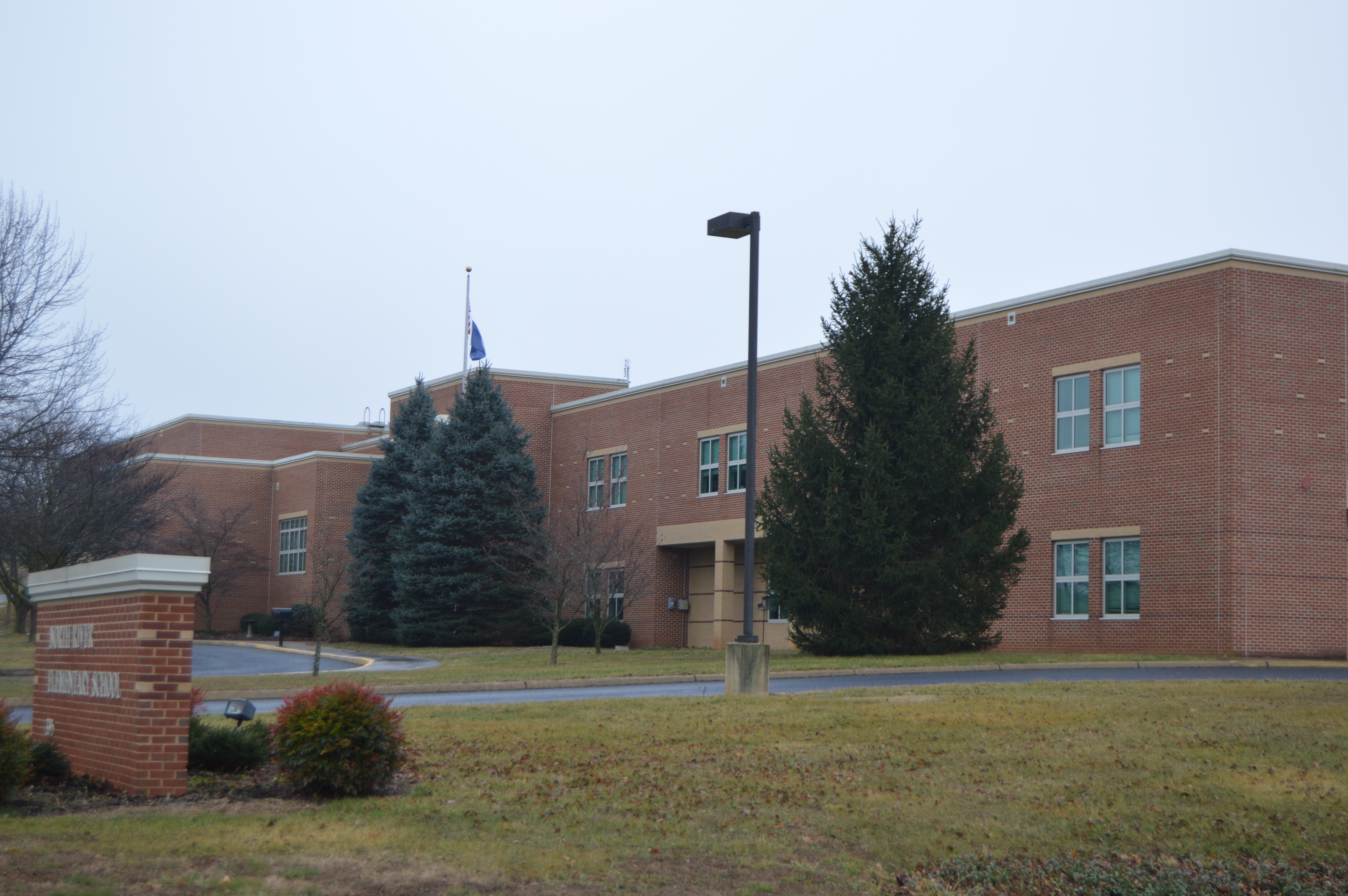 Front of North River Elementary School, located at 3395 State Route 42 east of Moscow in Augusta County, Virginia, United States. It occupies the site of the former North River High School, which was listed on the National Register of Historic Places in 1985; along no longer standing, the former school officially remains on the Register.